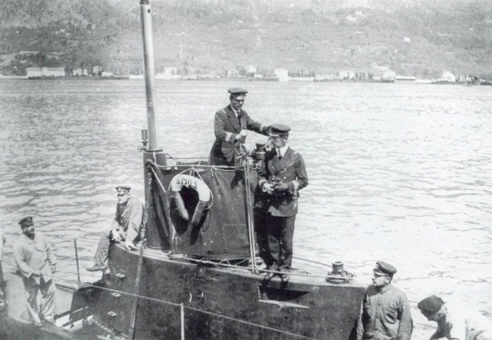 On the bridge, U 5 of its commander linienshiffsleytenant von Trapp.